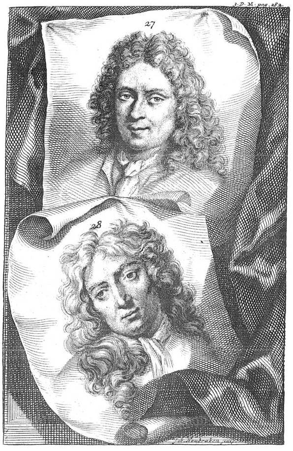 Plate M p292 27 Johannes Verkolje, 28 Abraham Hondius. Illustration from Part 3 of Arnold Houbraken's Schouburg from 1721